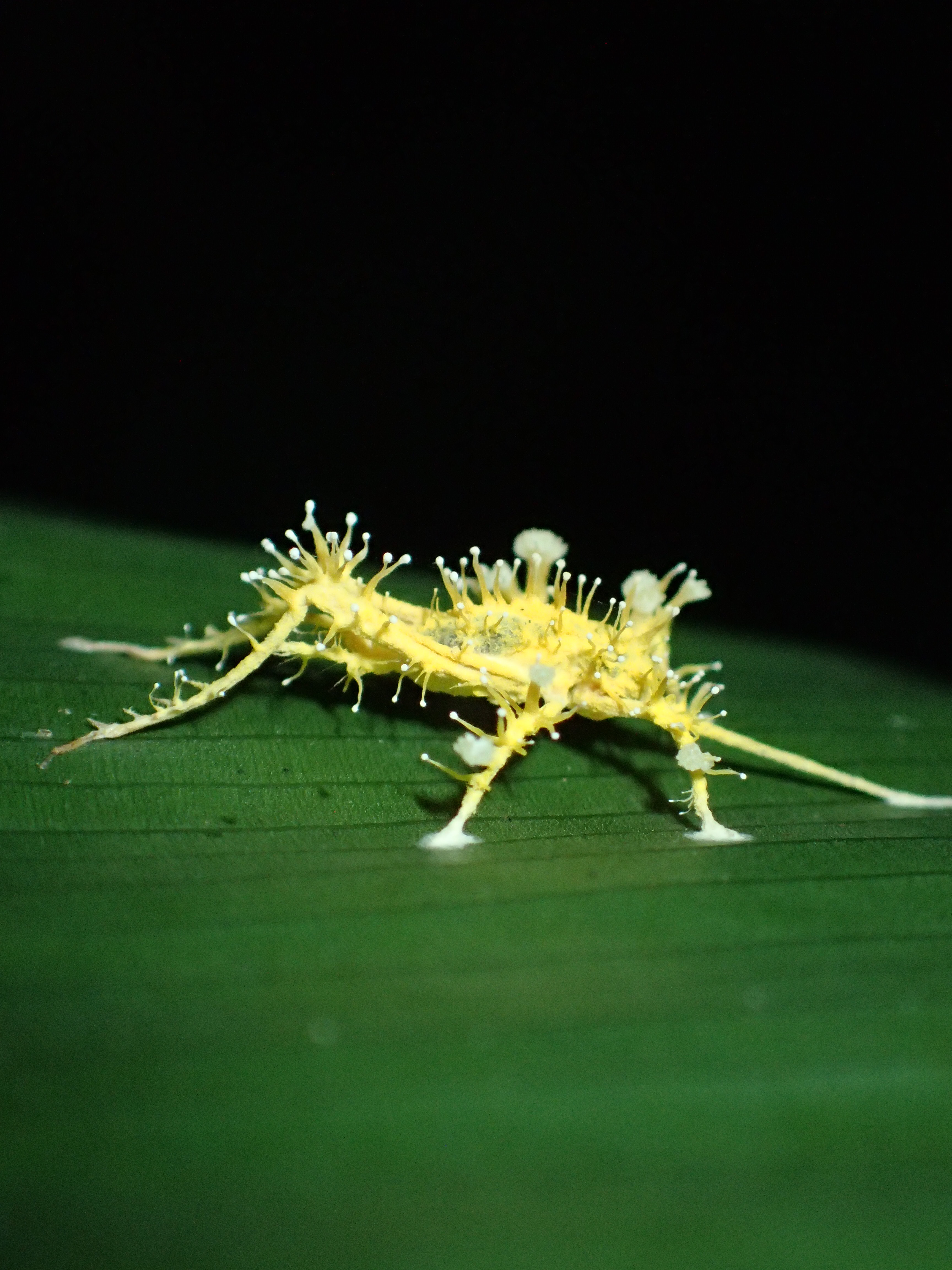 Beauveria loeiensis Luangsa-ard, Ridkaew & Tasan. Image location: Cristalino Jungle Lodge, Alta Floresta, Mato Grosso, Brazil Recognized by sight: ID by Tatiana Sanjuan On Facebook Hongos Entomopatogenos Latinamericanos For more information about this, see the observation page at Mushroom Observer.